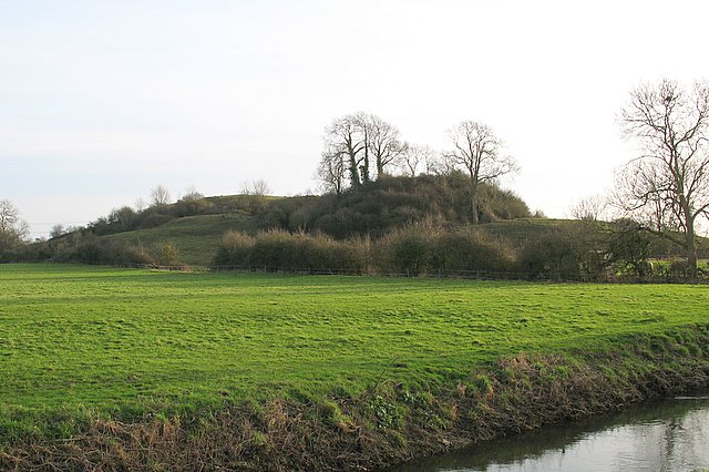 Fenny Castle Motte and Bailey Fenny Castle is a motte and bailey castle set on a small natural hill. The north west end of the hill has been scarped into a steep-sided conical to form a motte, while the south east end has been levelled to create a narrow bailey. Digging in the castle unearthed a wall which defended the summit, as well as iron rings, an iron implement and pottery. In C19 it is recorded that part of the slope at the north west end of the hill was removed to enable easier access around it. In the process the remains of 20 skeletons, possibly of a period predating the construction of the castle, were removed. The river Sheppey can be seen in the foreground.